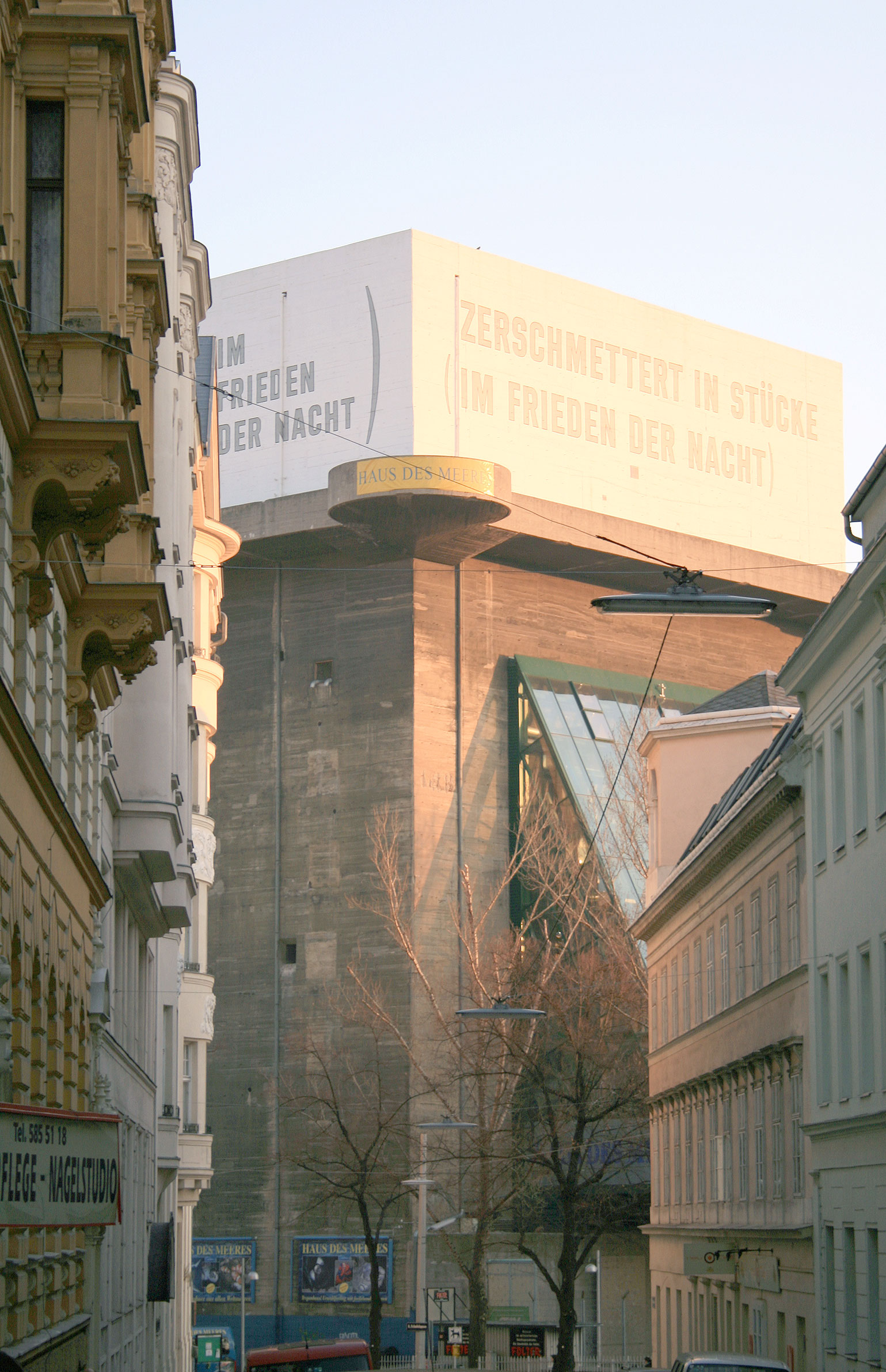 The flak-tower in the Esterhazypark in Vienna, built from october 1943 to july 1944; visible at the top part is the inscription attached by the conceptual artist Lawrence Weiner (USA) in 1991: Smashed to pieces in the still of the night/Zerschmettert in Stücke im Frieden der Nacht